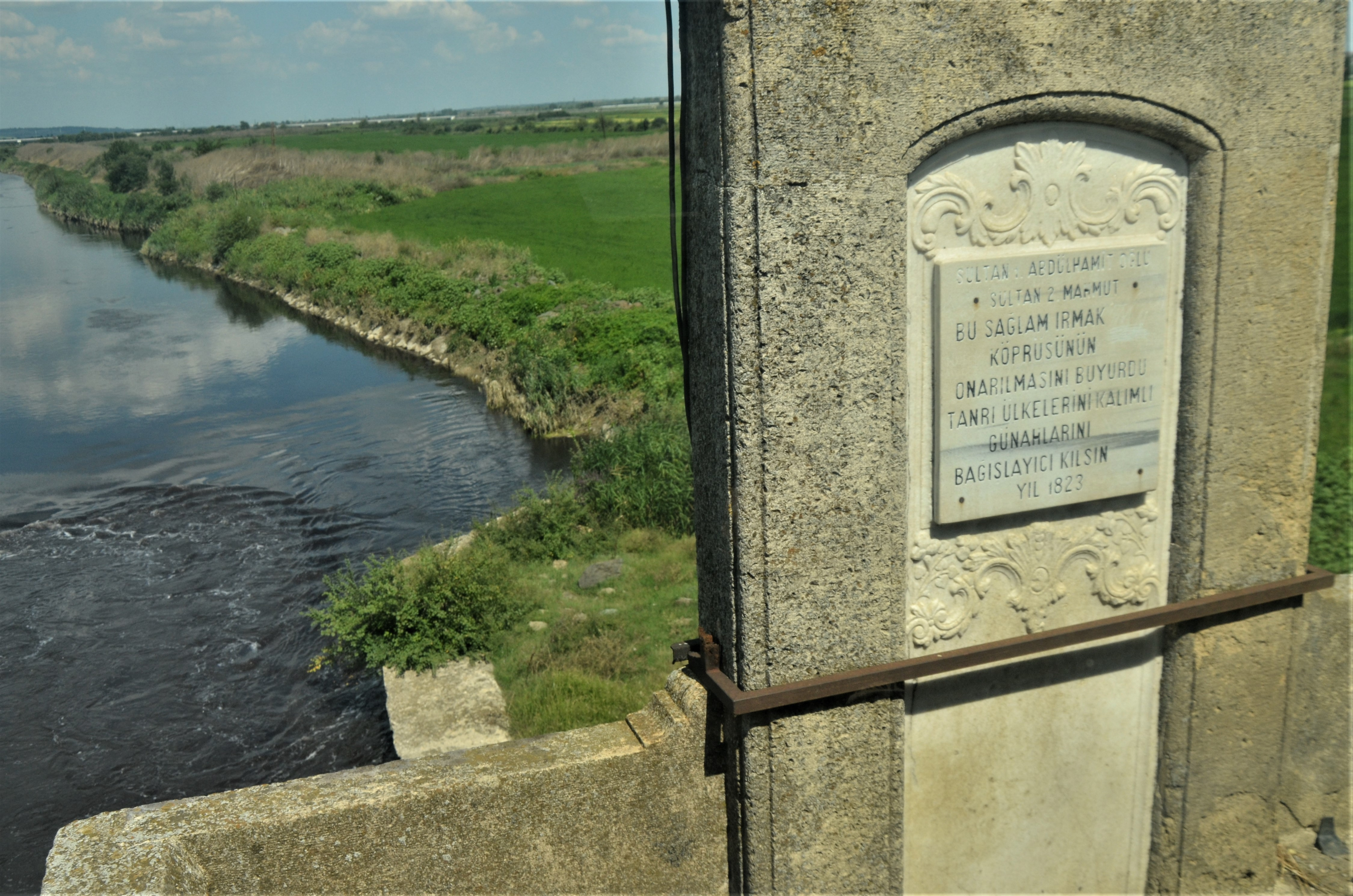 Uzun köprü (The Long Bridge) ,n Uzunkörü, Edirne Province, Turkey